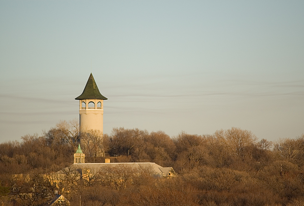 Shot from Stadium Village, a neighborhood of Minneapolis. An image of Prospect Park and the Witch's Hat Water Tower in autumn. Copyright © 2004-2006 by April M. King, aka Marumari, donated to Wikipedia under the GFDL. Replaces Image:Prospect.JPG